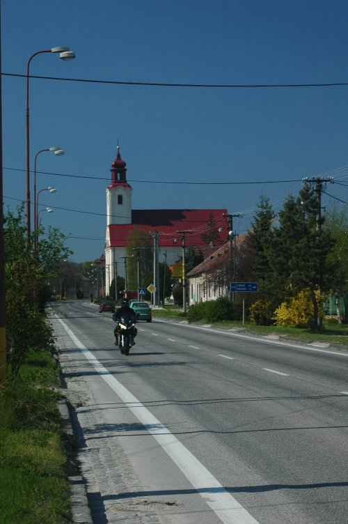 Trstín, main street